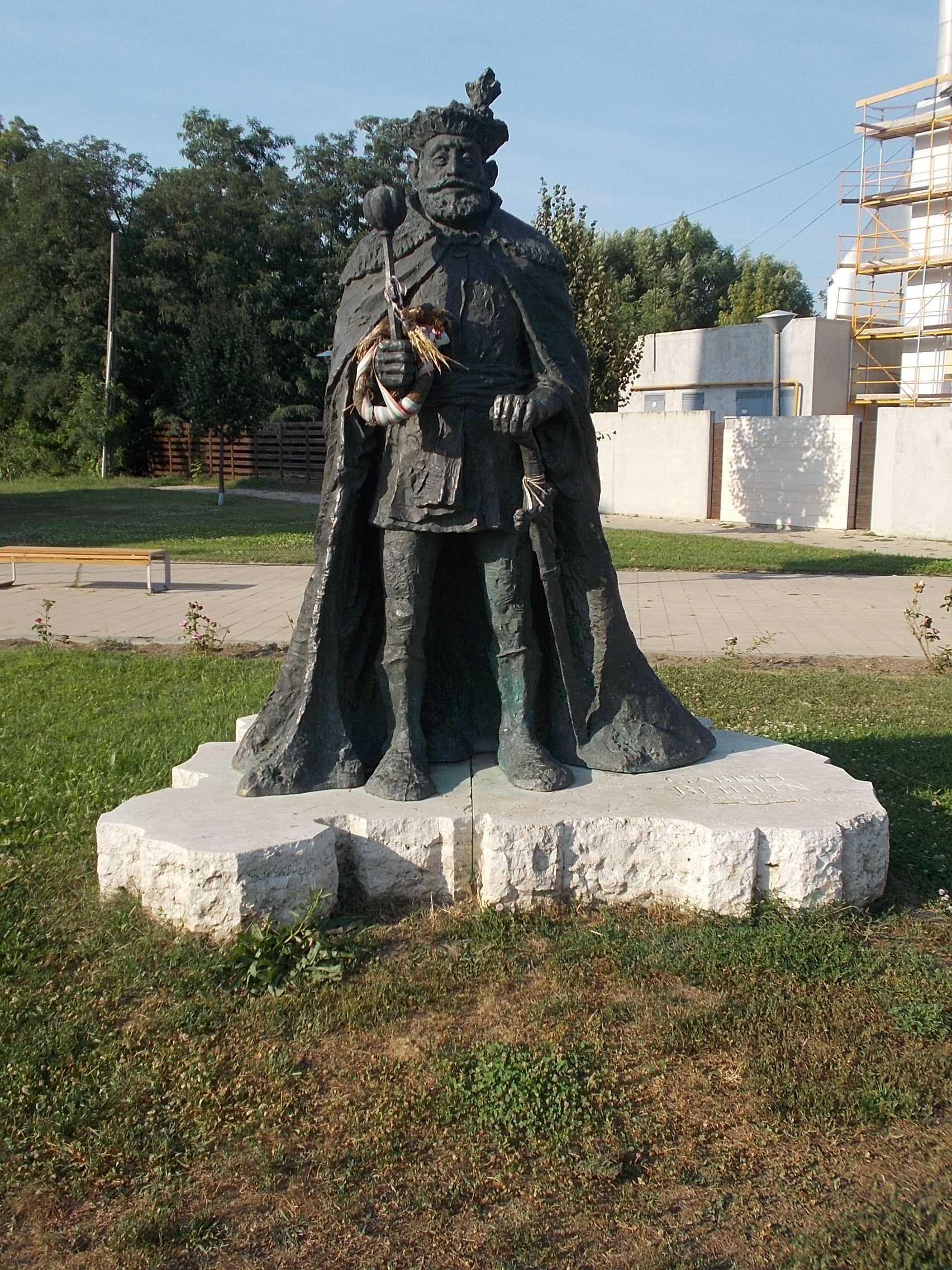 Statue of Gábor Bethlen by György Kiss (1990 Bronze statue on a Hungarian Kingdom shaped limestone base. - Várostörténeti (lit. City history) Promenade&Károlyi Stret cnr., Nyírbátor, Szabolcs-Szatmár-Bereg County, Hungary.